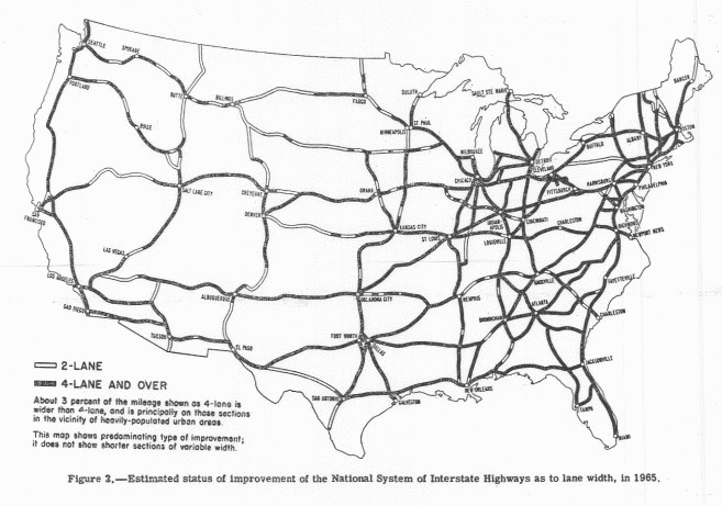 The US Highway System needs in 1965